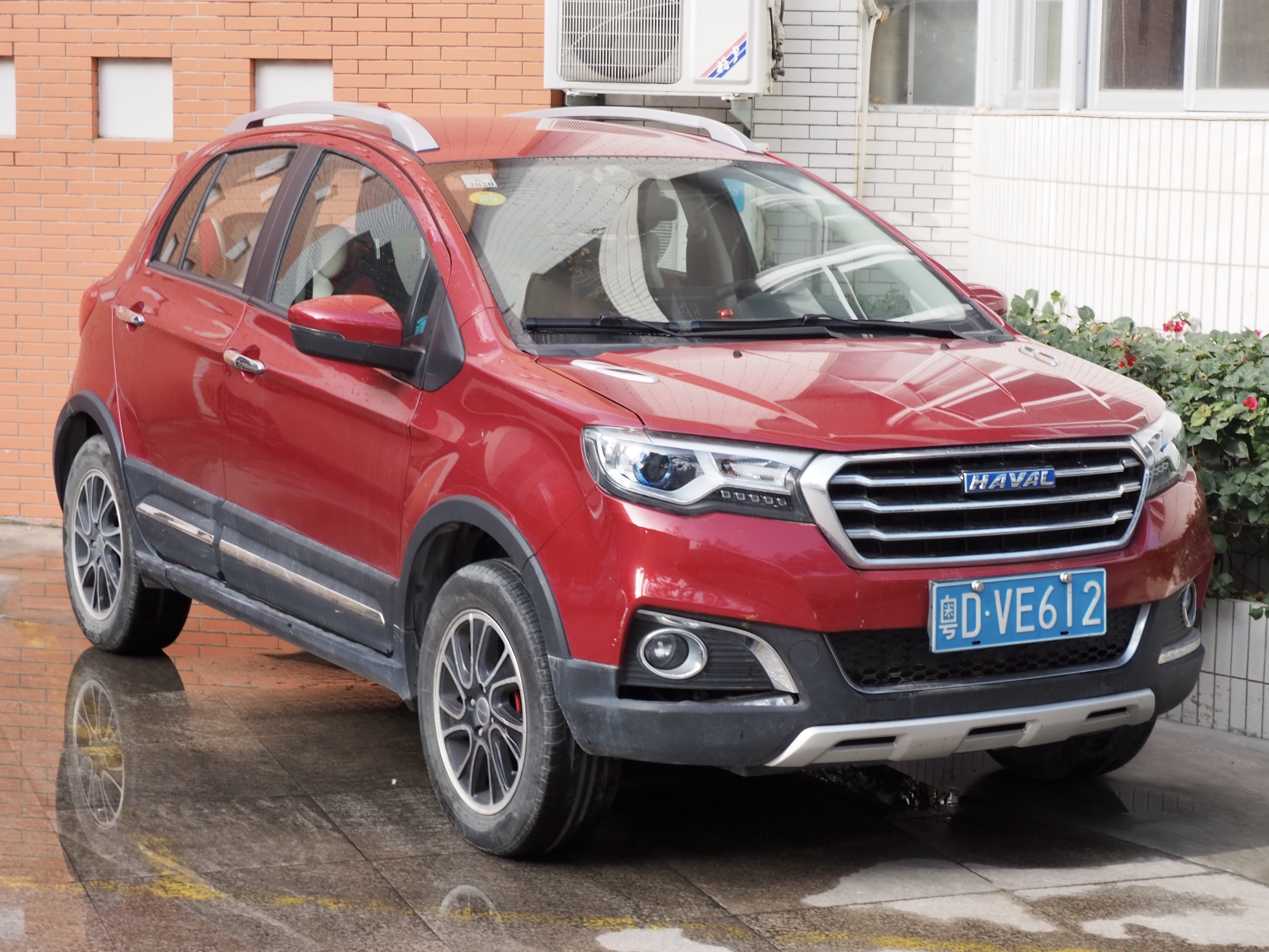 A 2014 Haval H1 photographed in Shantou, Guangdong province, China. 中文（中国大陆）: 一辆2014年的哈弗H1，拍摄于中国广东省汕头市。